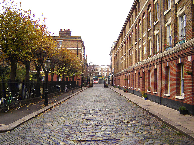 Gibson Gardens, Stoke Newington, Hackney, London. 6 December 2005. Photographer: Fin Fahey.